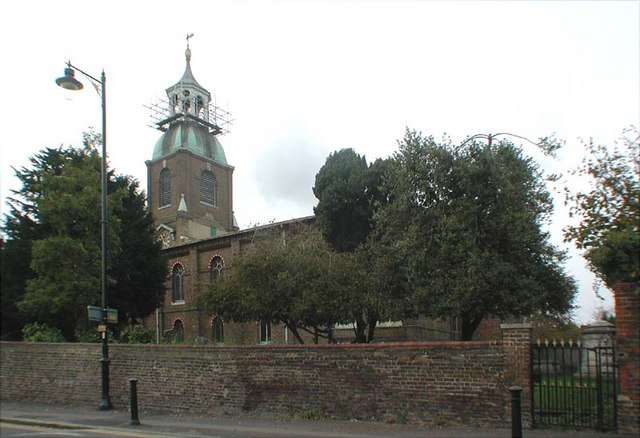 St Mary, Sunbury-on-Thames